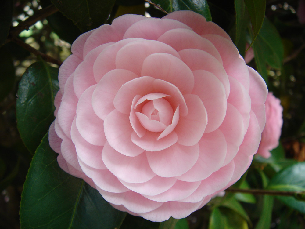 This flower is from of a cultivar of Camellia japonica (Theacaeae), probably Camelia japonica 'Otome' also called 'Pink Perfection'